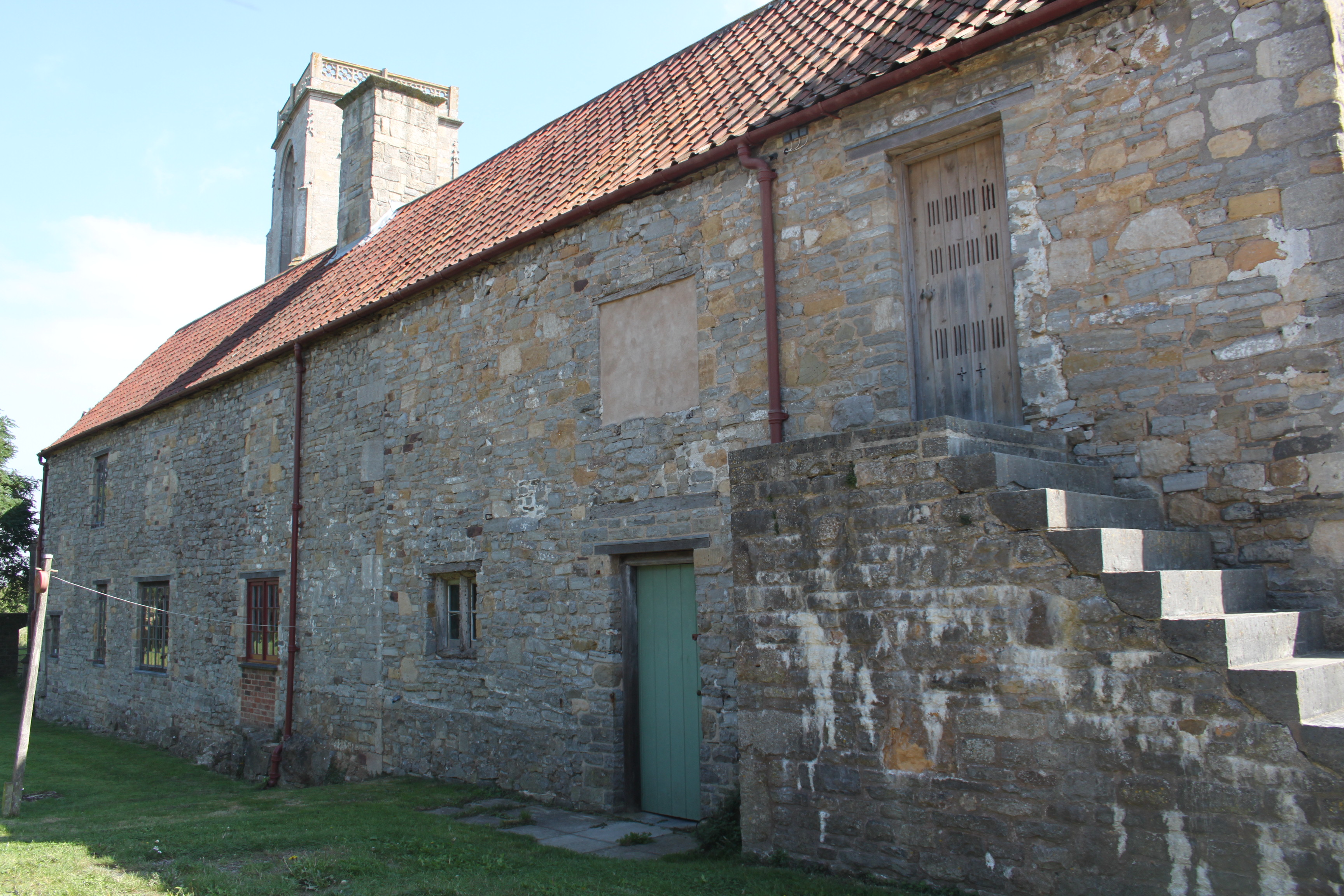 Farmhouse Range Adjoining Priory Church At West